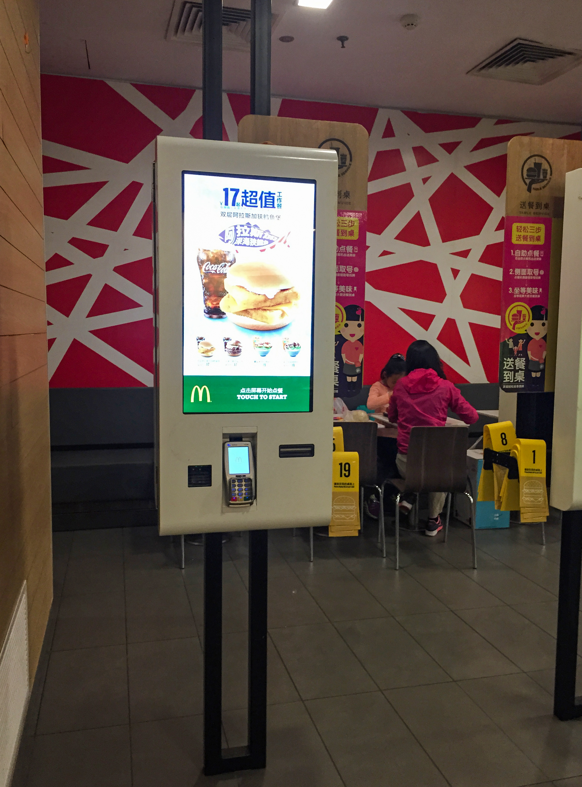 Such machines can be found at several McDonald's in Beijing. One would receive a receipt with order number, which would be displayed on order screen.